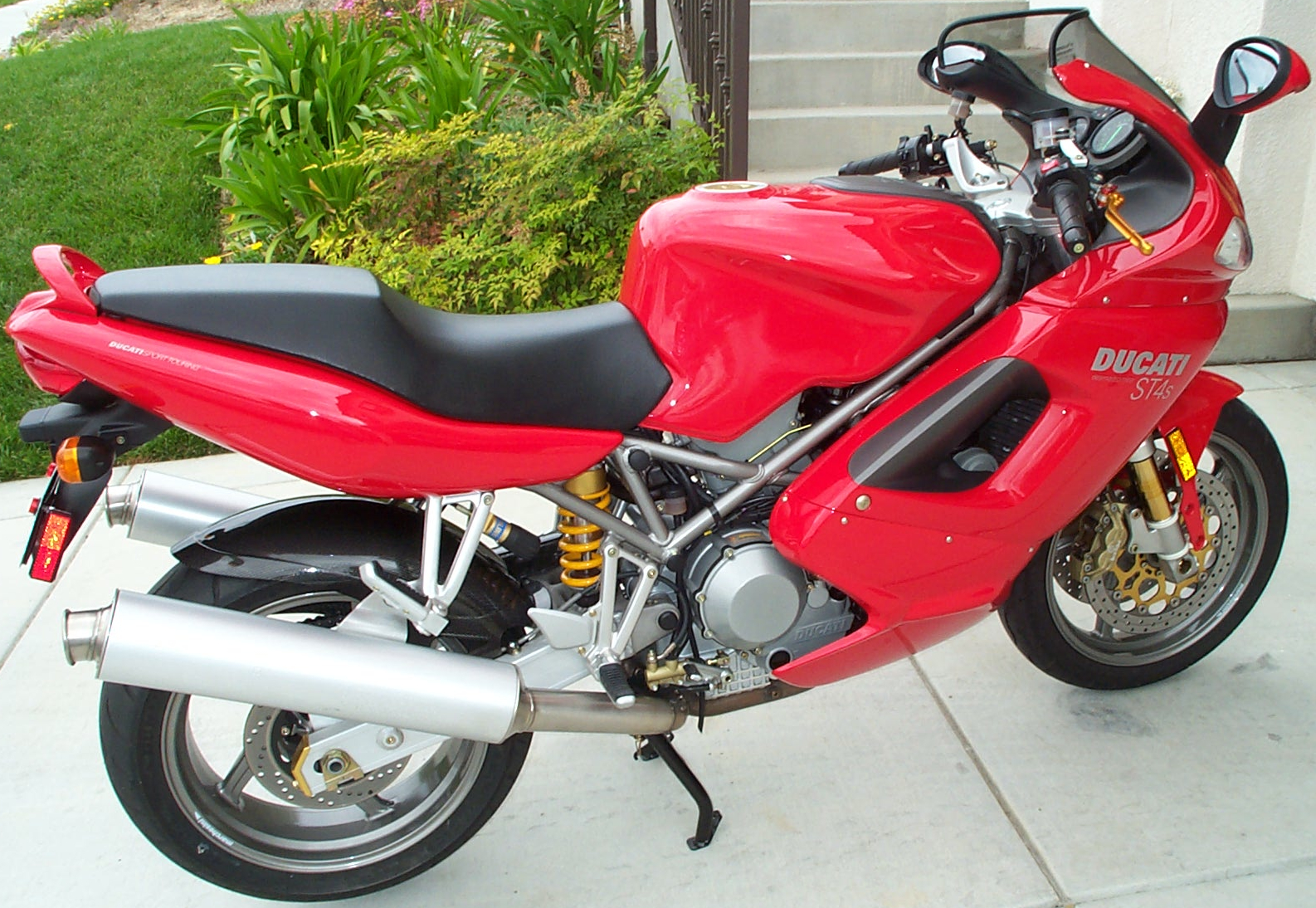 Example of a very clean 2002 Ducati ST4s